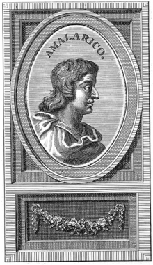 Amalarik